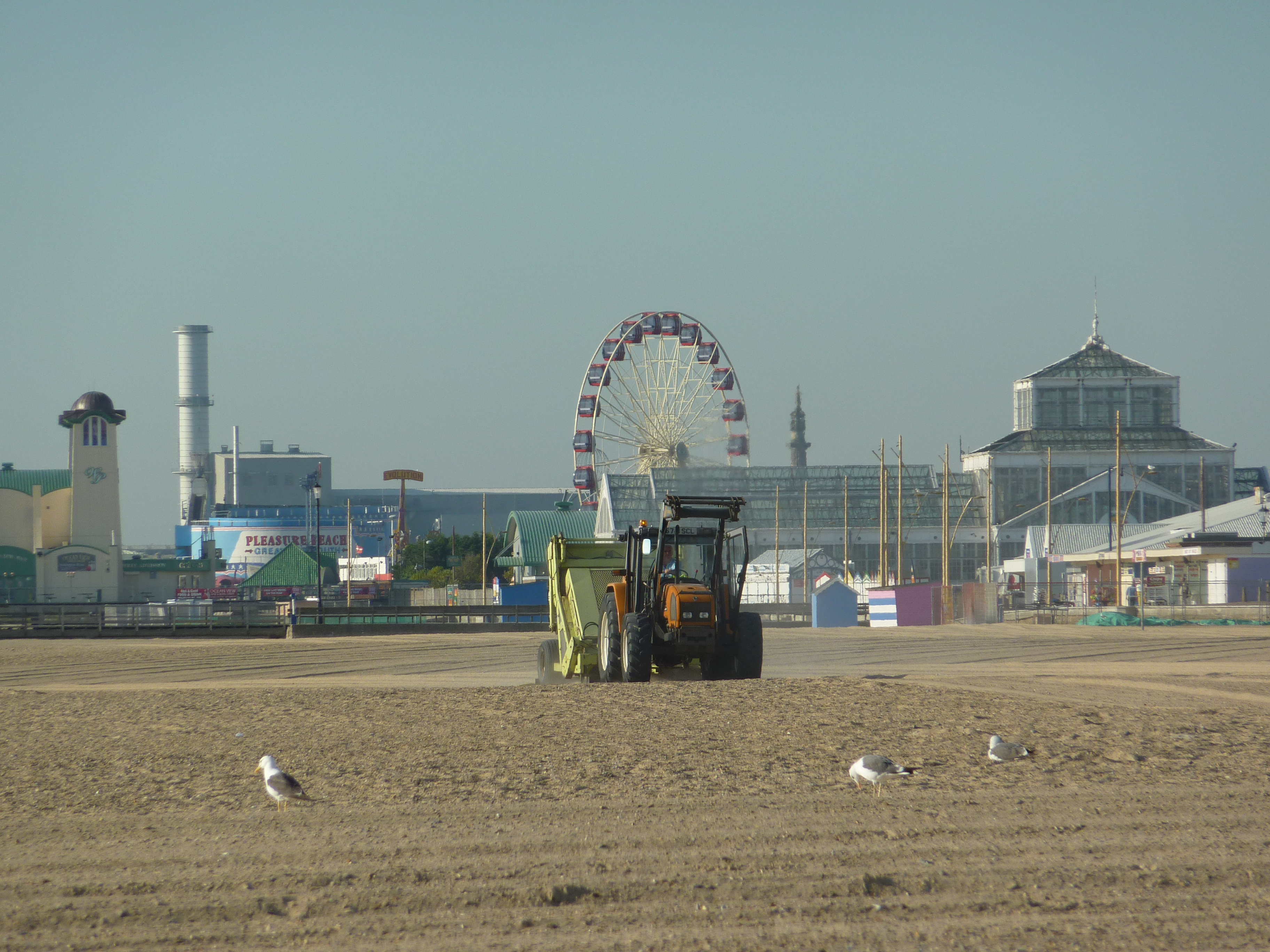 Sandboni large in Great Yarmouth